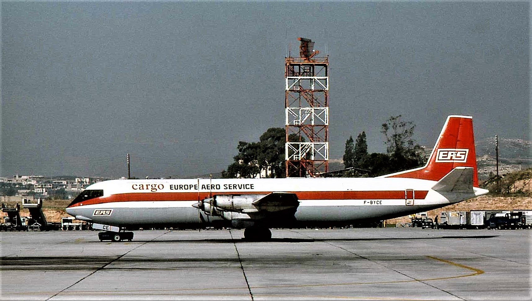 EAS Europe Airlines Vickers Vanguard F-BYCE, once EAS Europe Aero Service, taken at Athens International Airport in January 1978.